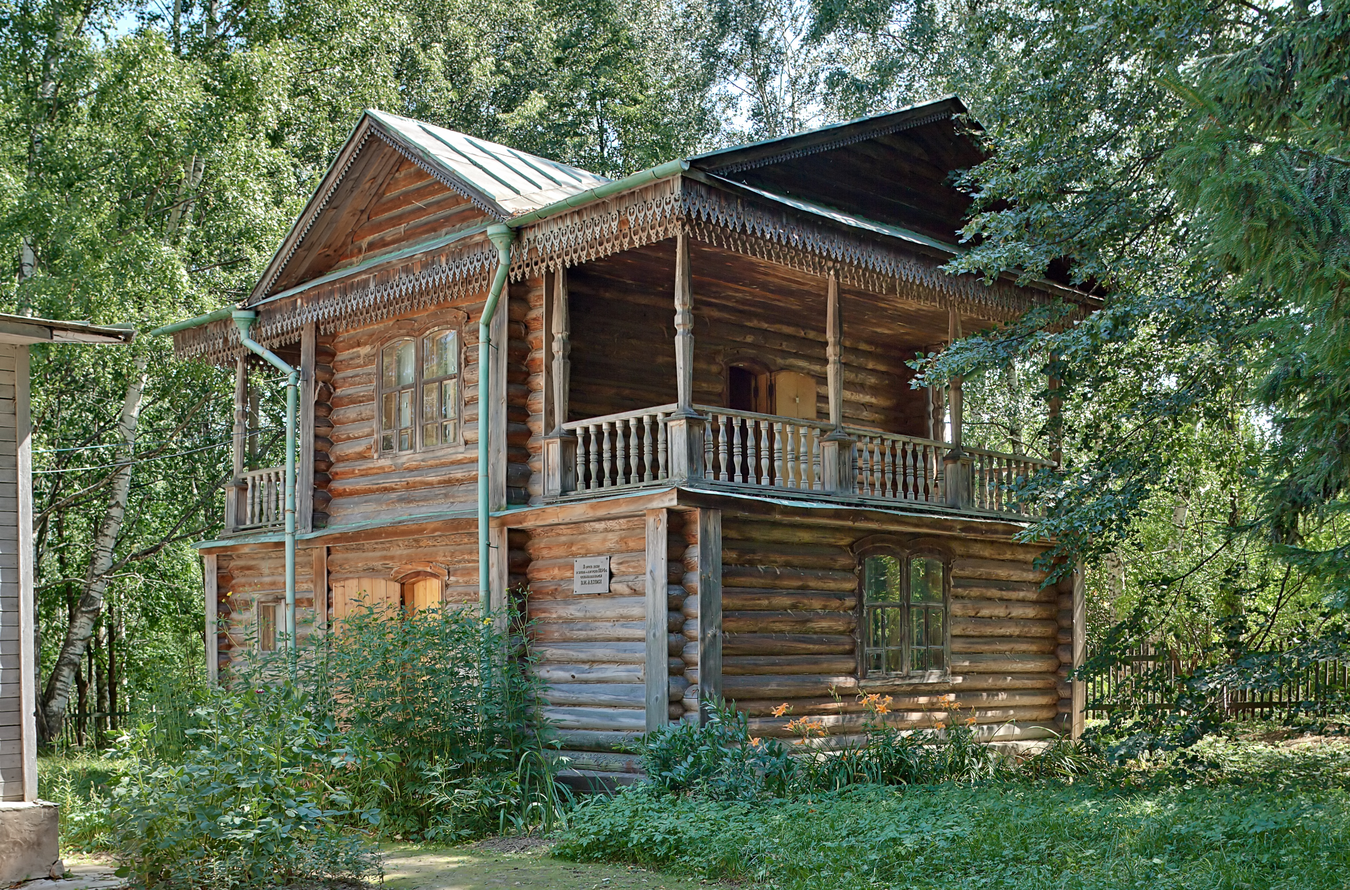 A hunting lodge where in 1894 Vladimir Ilich Lenin stopped. Reconstruction.